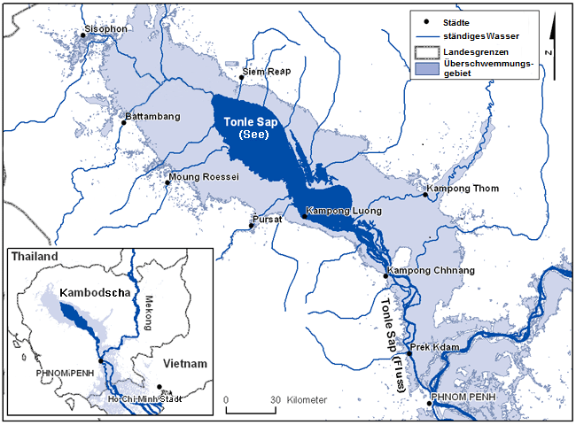 Map of Tonlé Sap lake and river, text in German